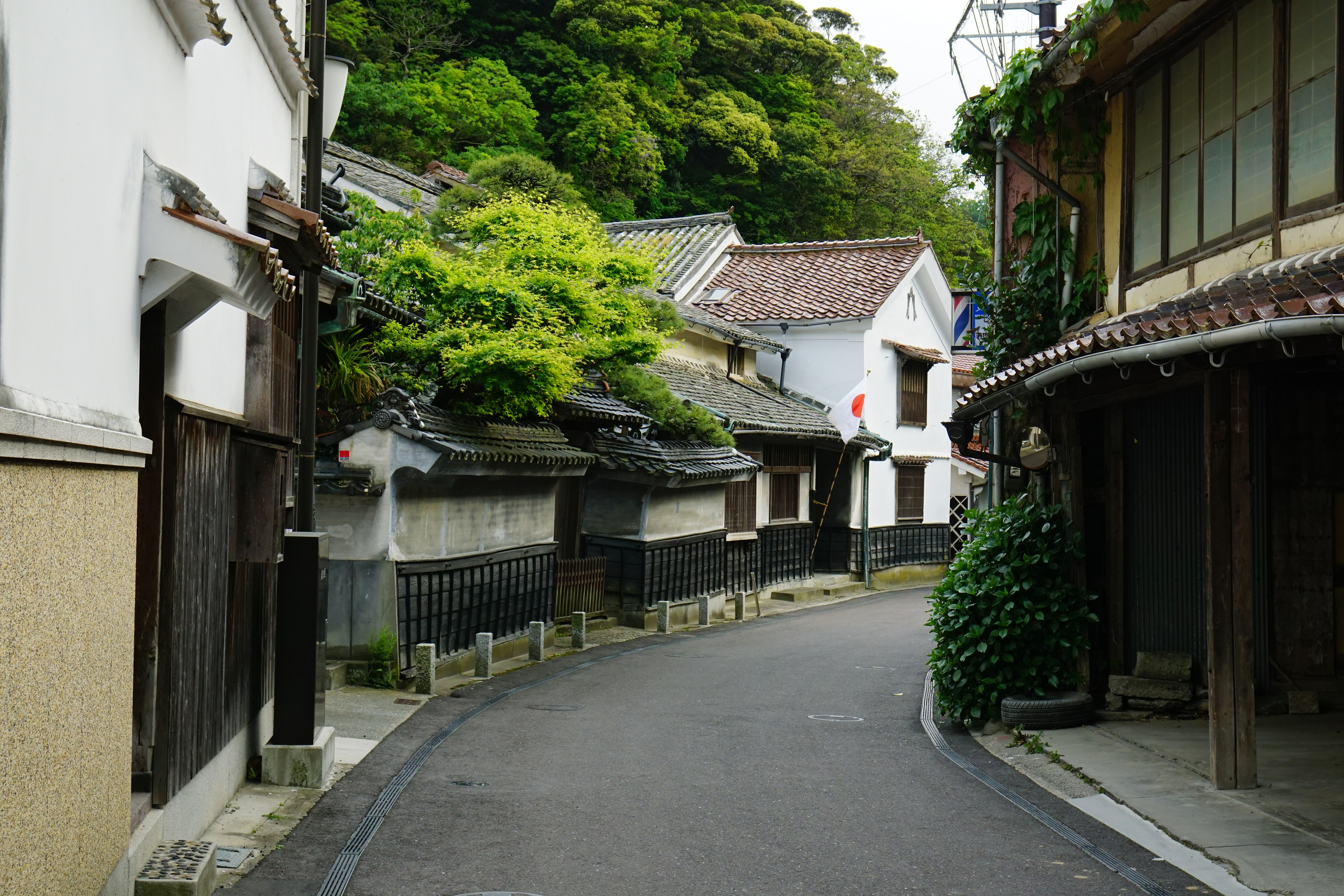 Yunotsu Onsen in Ōda, Shimane prefecture, Japan. It was registered as part of the UNESCO World Heritage Site "Iwami Ginzan Silver Mine and its Cultural Landscape".